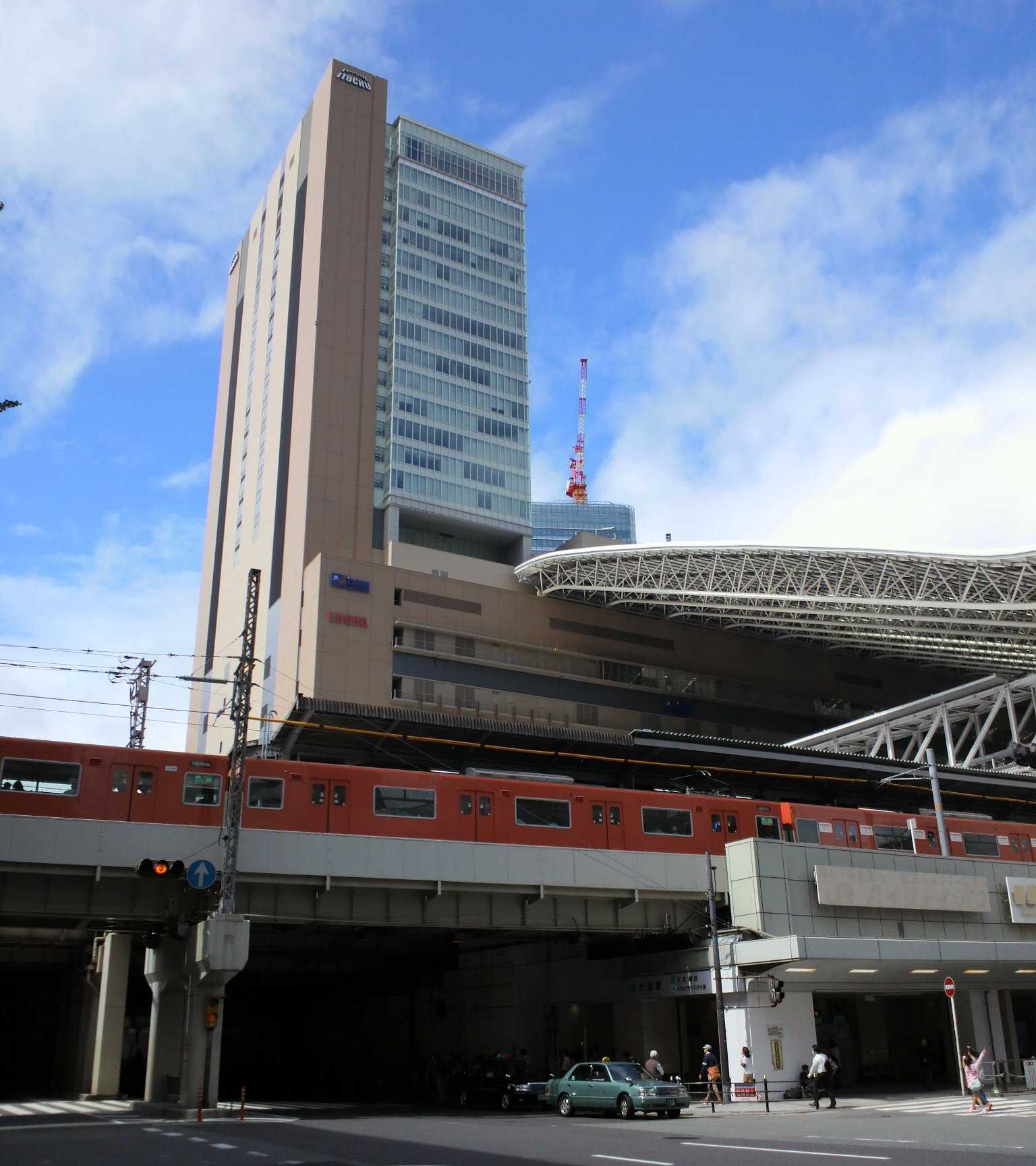 North Gate Building Office Tower, a part of Osaka Station City